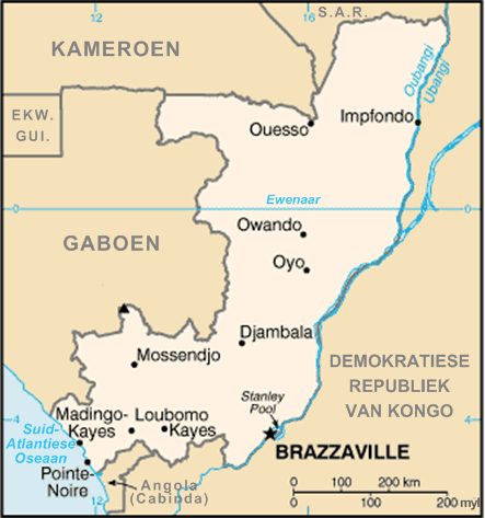 An Afrikaans map of the Republic of the Congo.